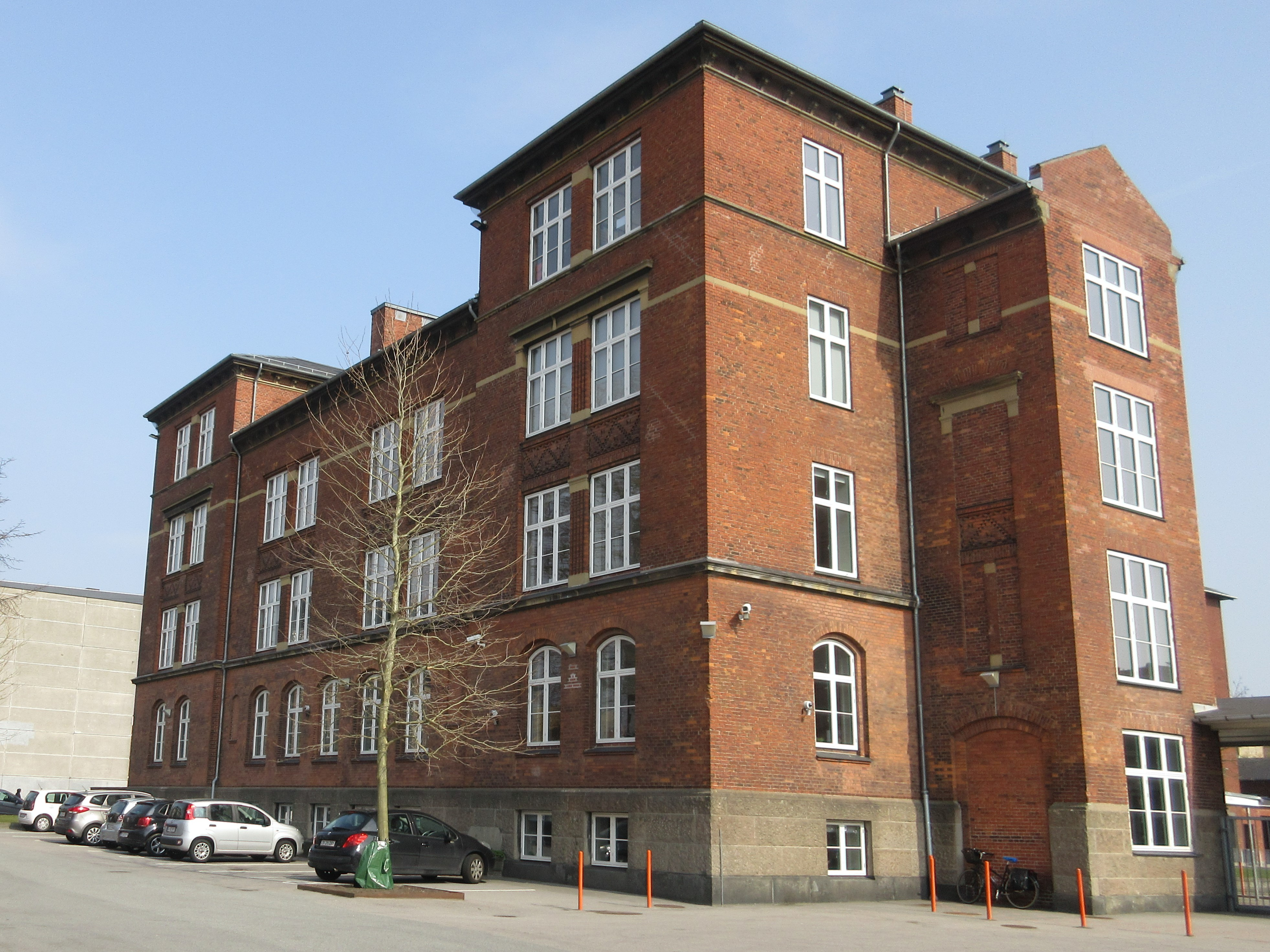 The former Frederikssundsvejens Skole at Frederikssundsvej 77-78 in Copenhagen, Denmark